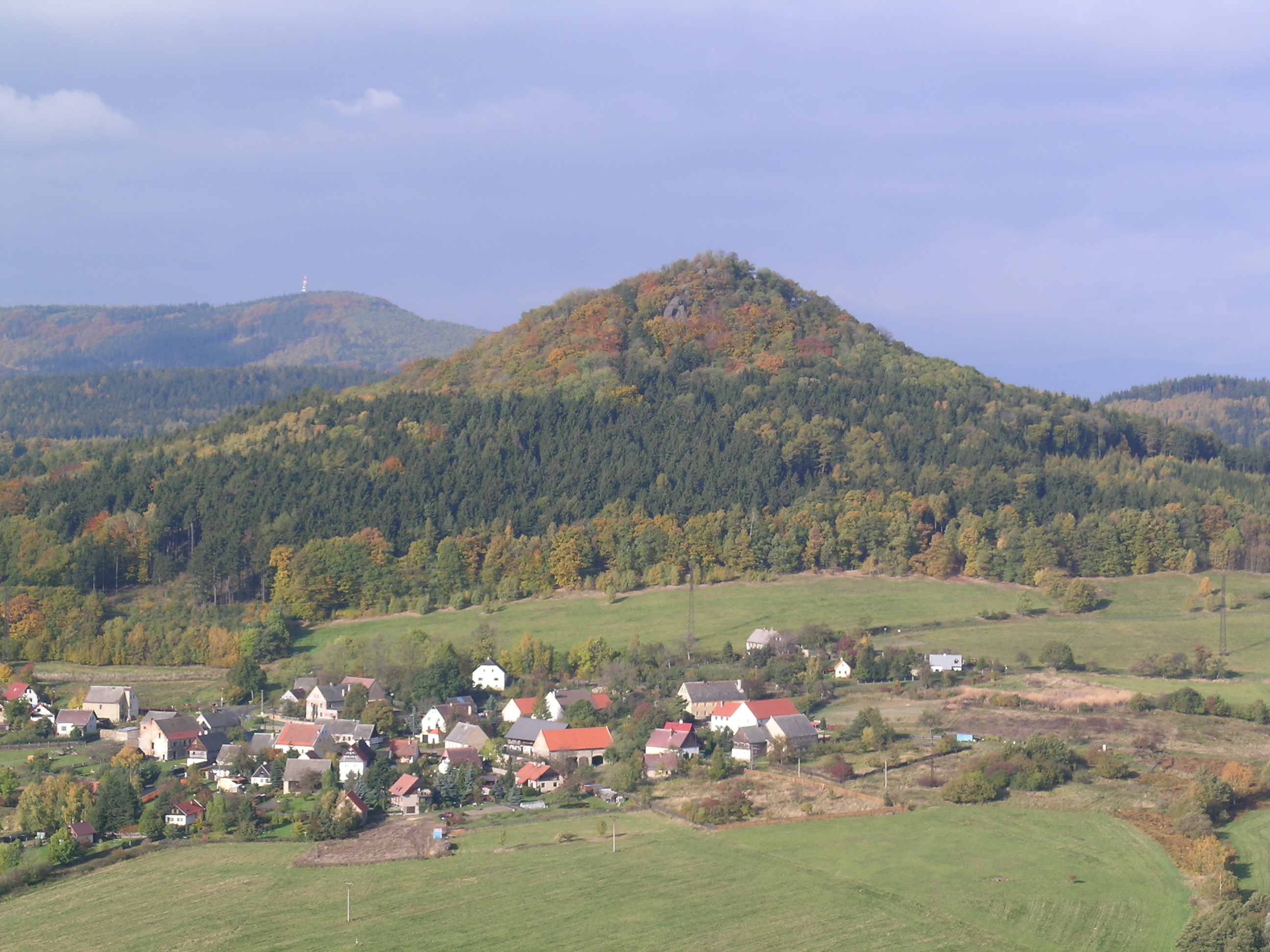 České středohoří Mts., Czech Republic. Panna Hill and village of Řepčice near Třebušín as seen from the Kalich Hill.